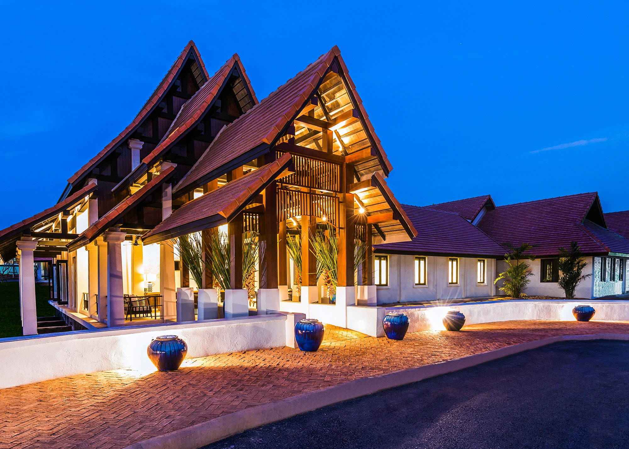 The cabin Chiangmai facilities